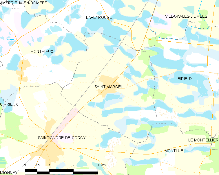 Map of French commune: Saint-Marcel Map commune FR insee code 01371.png